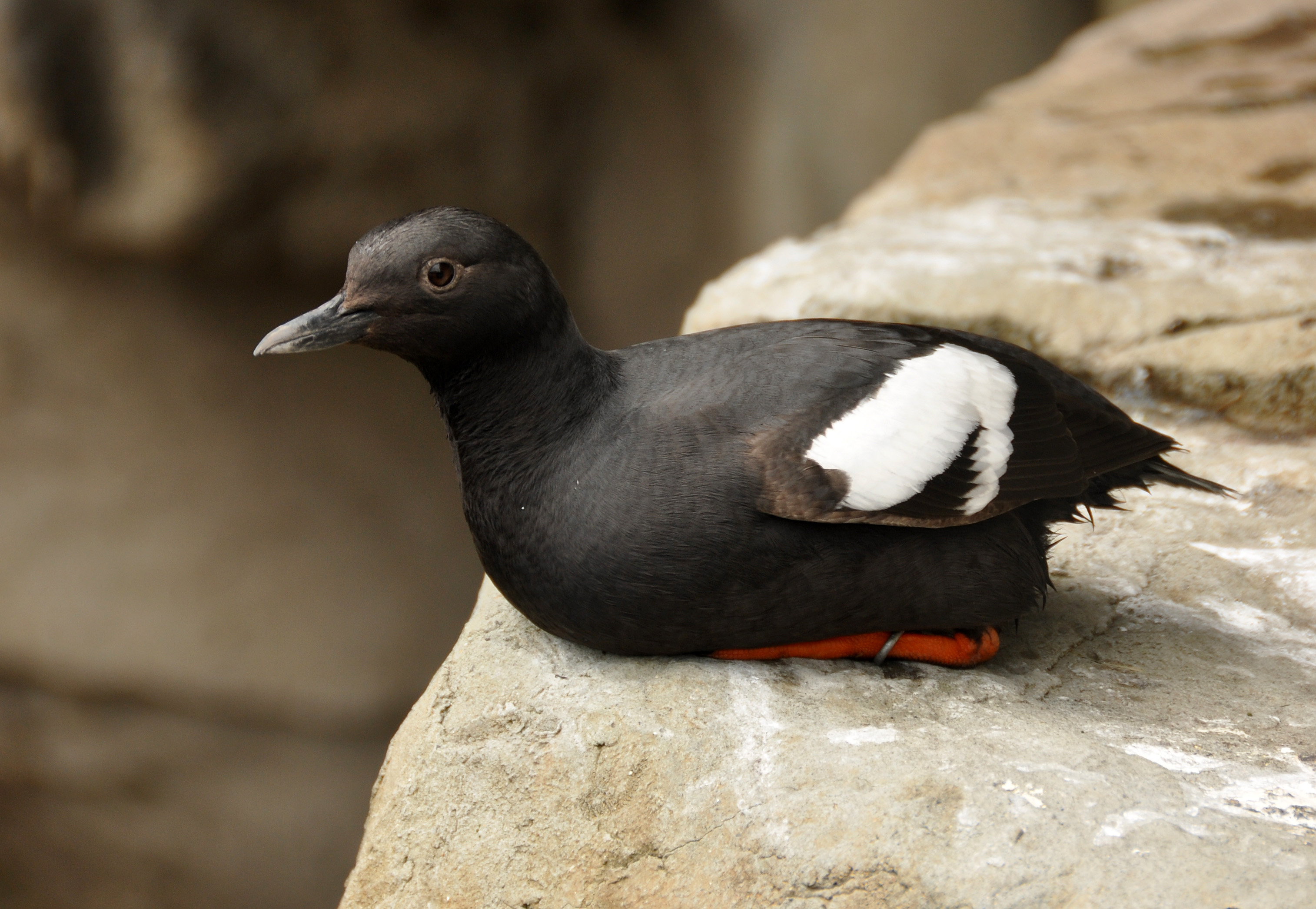 A Pigeon Guillemot (Cepphus columba) at Living Coasts, Torquay, UK